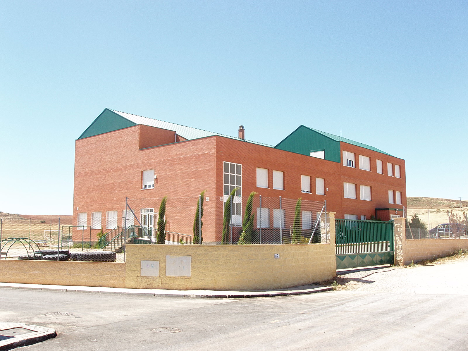 Digial photograph of the Evangelical Christian Academy, a Christian school located in the town of Camarma de Esteruelas in Madrid, Spain. The front of the school is located on the right-hand side of the picture. The school pictured here was built in 2002. This photograph was taken with the Olympus C-60 Zoom digital camera.